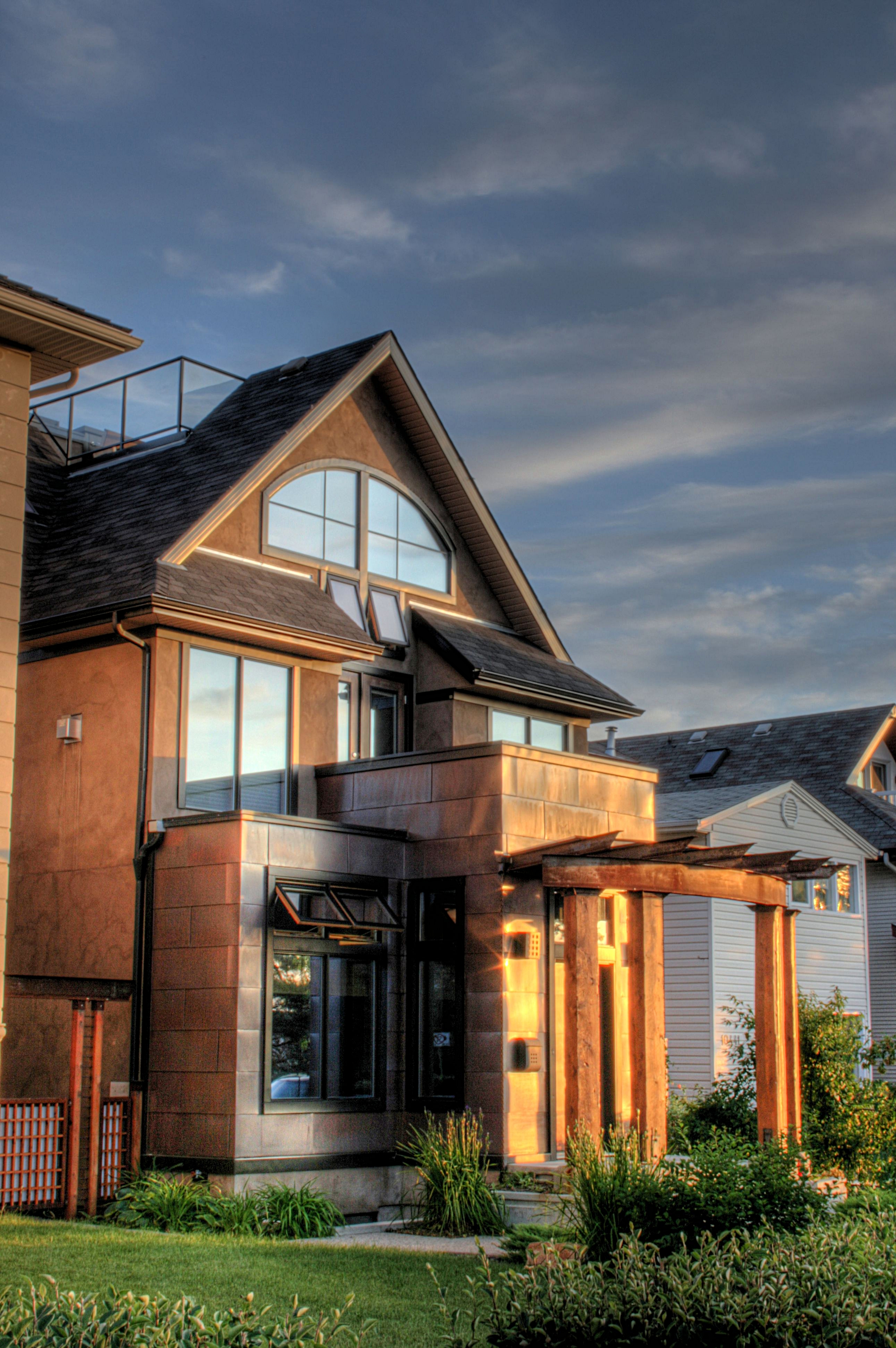 A home overlooking the Saskatchewan River Valley in Edmonton, Alberta, Canada.